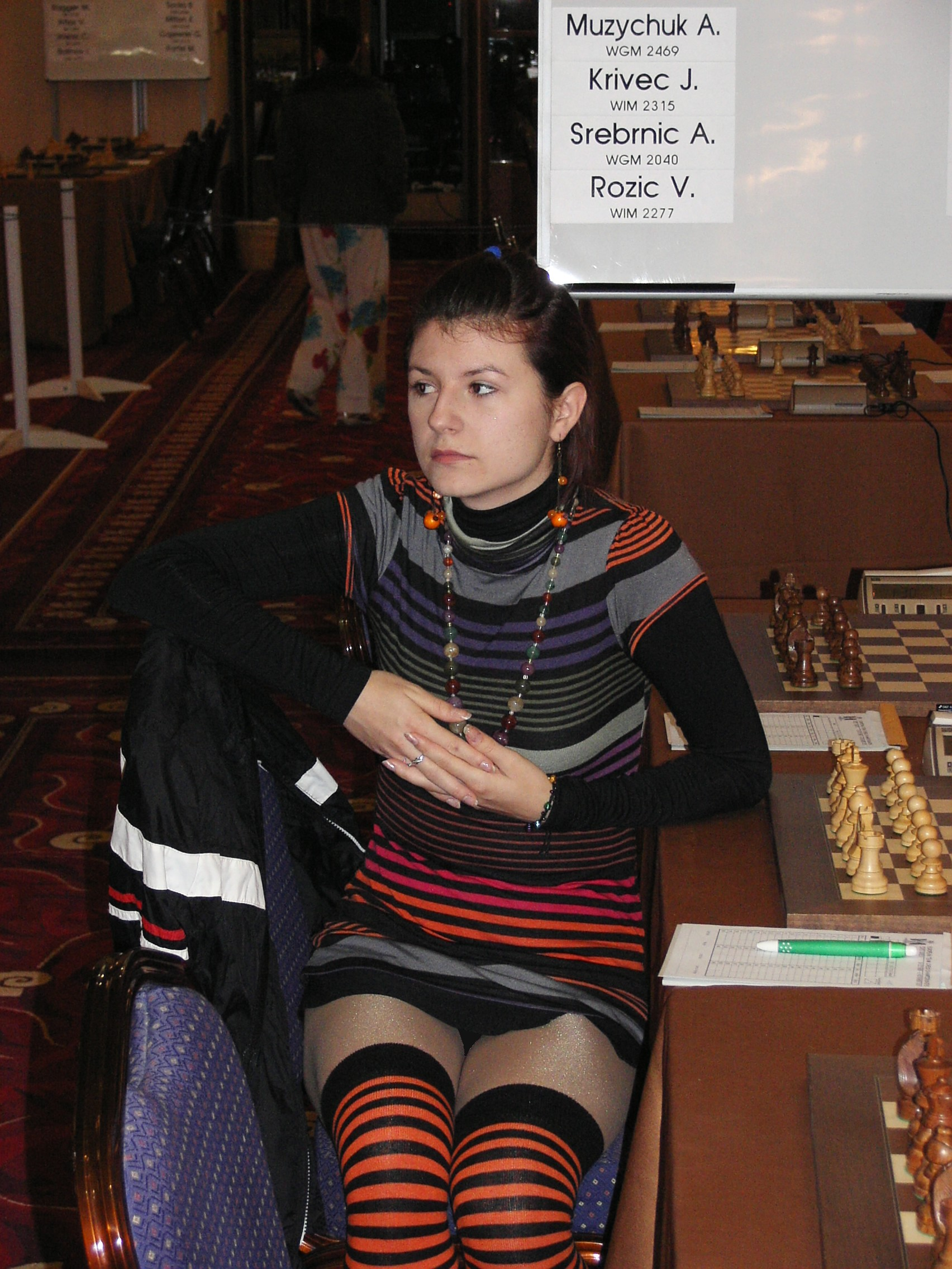 WGM Ana Srebrnic (Slovenia), Heraklion 2007